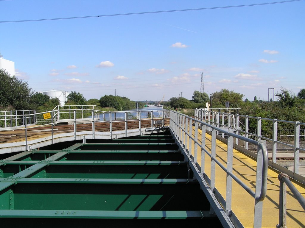 View along the Stainforth and Keadby Canal looking towards Keadby with the Vazon Sliding Railway Bridge in the foreground